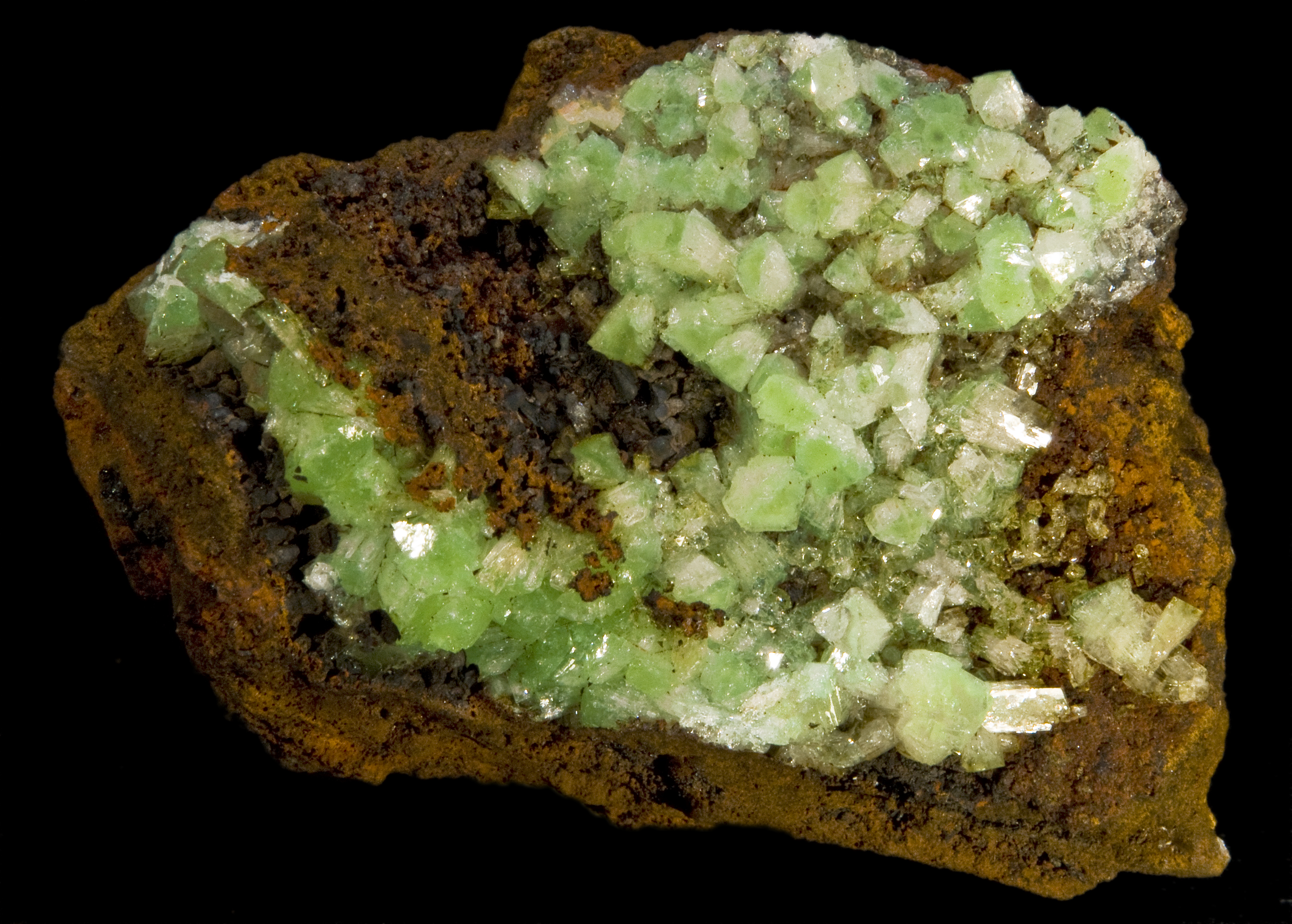 Cuprian Adamite (7.5x4.8cm) Locality: Ojuela Mine, Mapimí, Mun. de Mapimí, Durango, Mexico